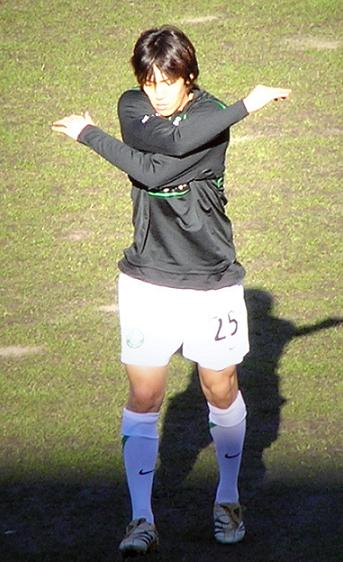 Cropped from :Image:Shunsuke Nakamura.jpg